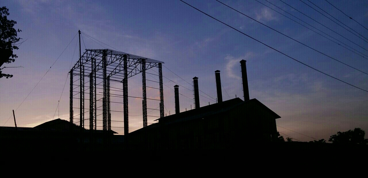 Captured with a LG G2 in 2014. Find me on : "Mahin S Ratul".